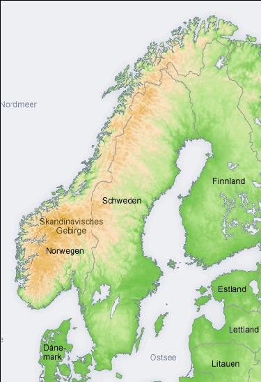 Scandinavia Topography map (DE)